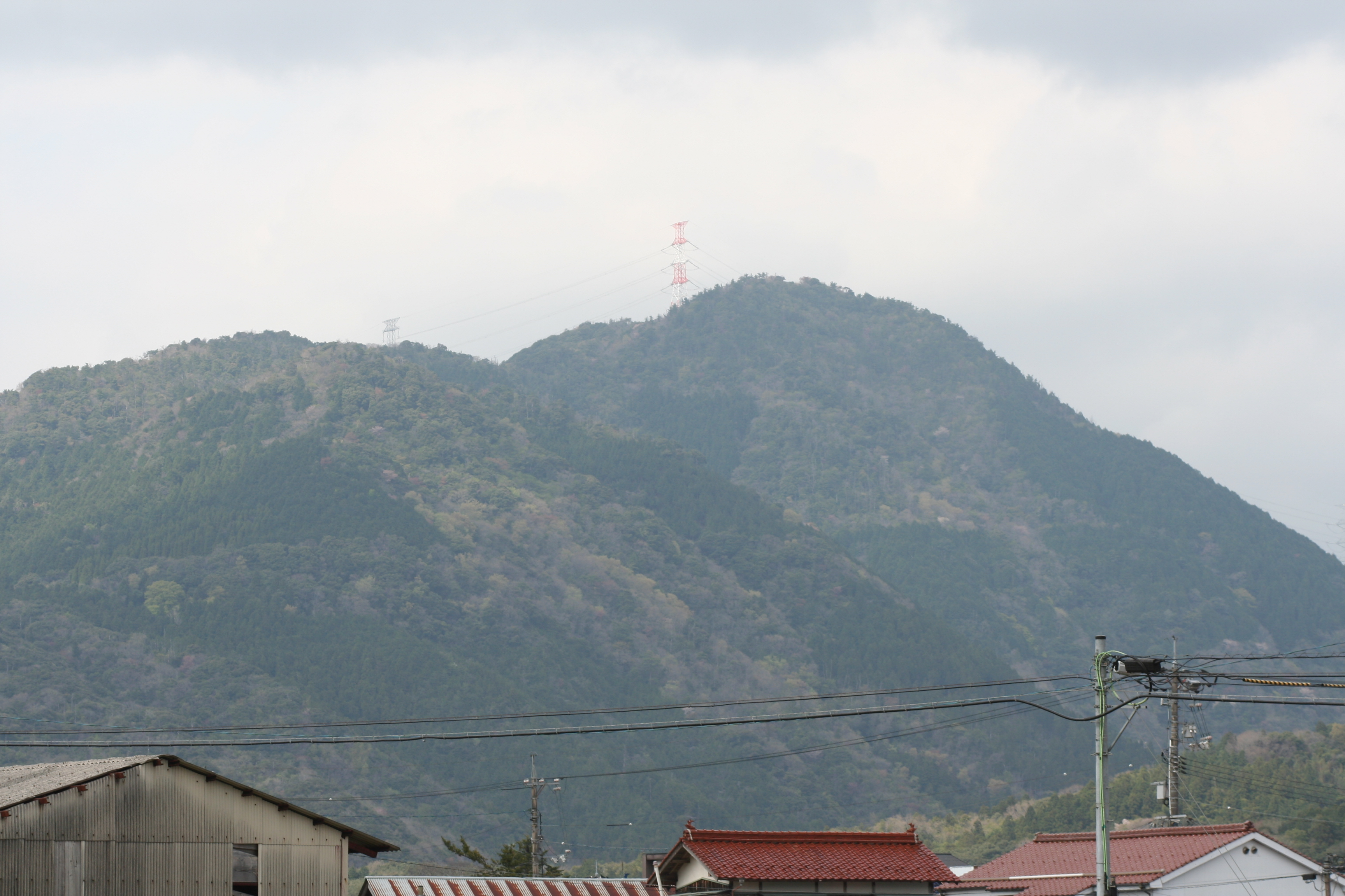 Mount Nyoi (Nyoigatake)